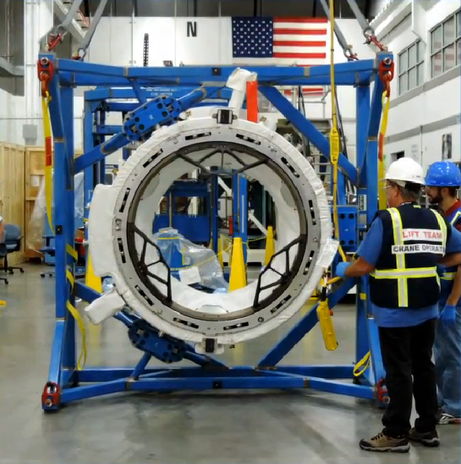 None.